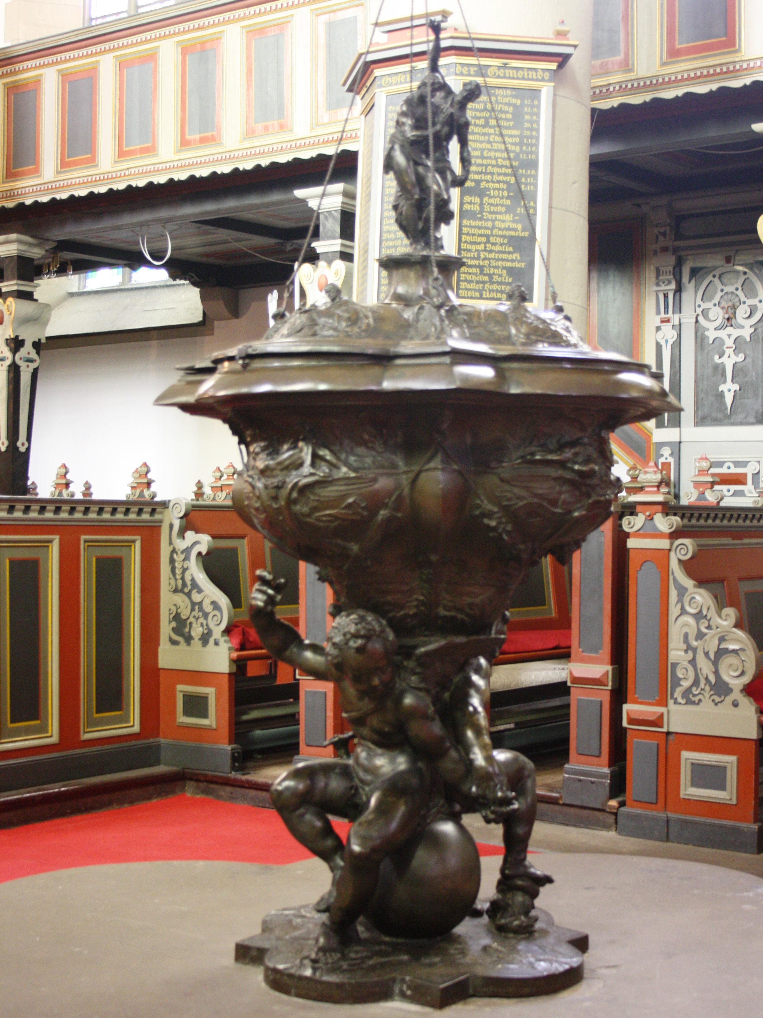 Townchurch in Bückeburg, Germany. Baptistry from Adriaen de Vries.